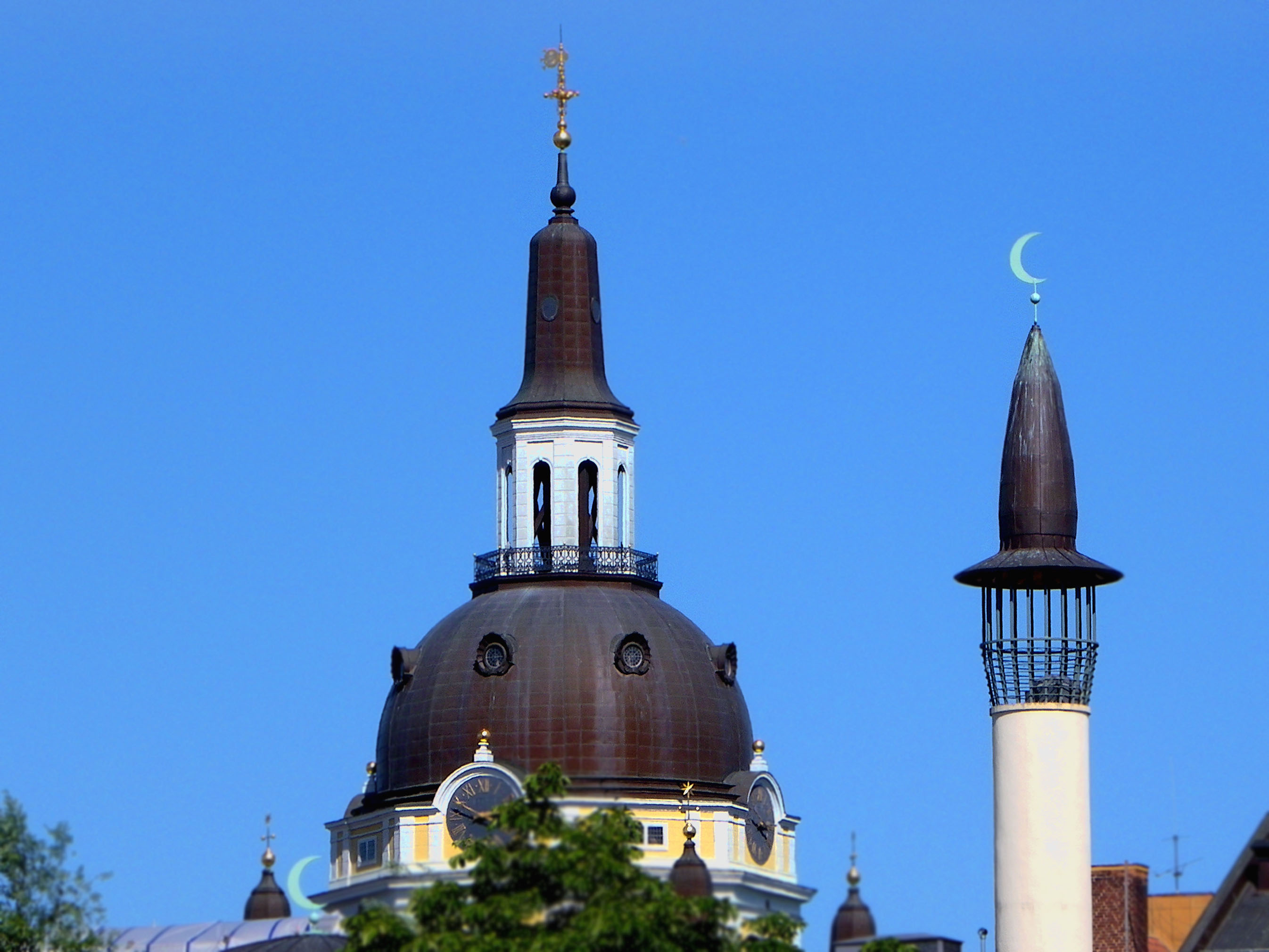 Katarina Church and the minaret of the Stockholm Mosque.